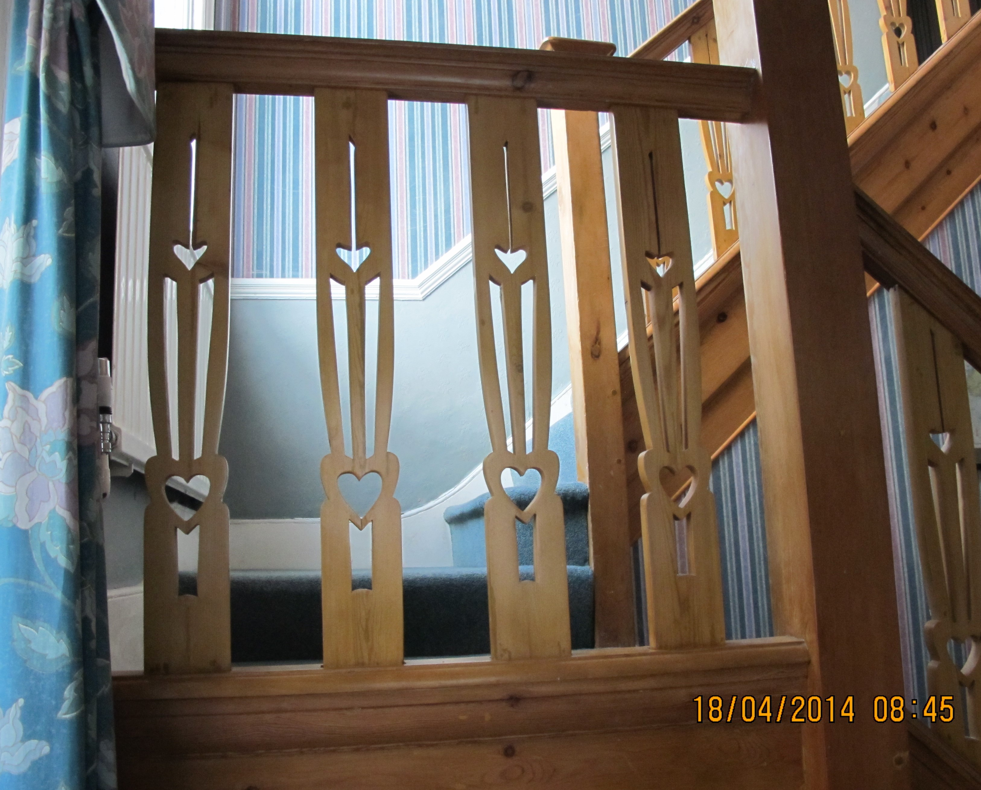 Arts and Crafts inspired balusters c1905 installed in a row of houses in Etchingham Park Road Finchley London